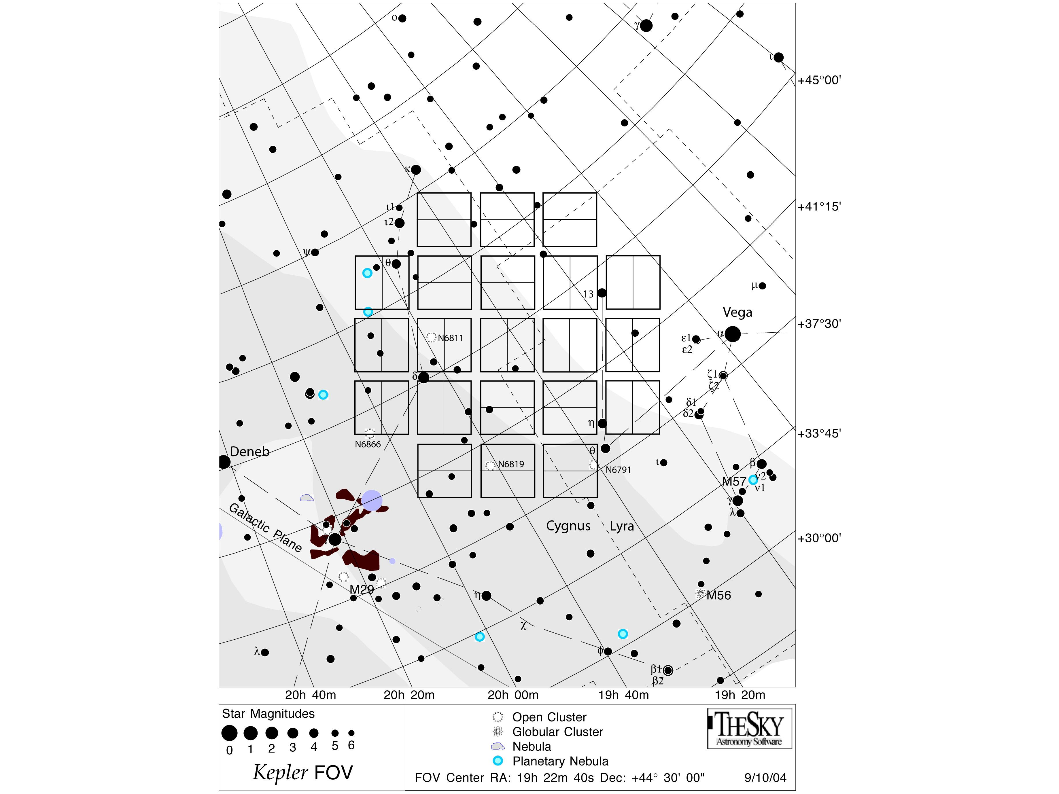 Kepler's Field Of View In Targeted Star Field